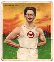 Emilio Lunghi 1910 Hassan Cigarette trading card.